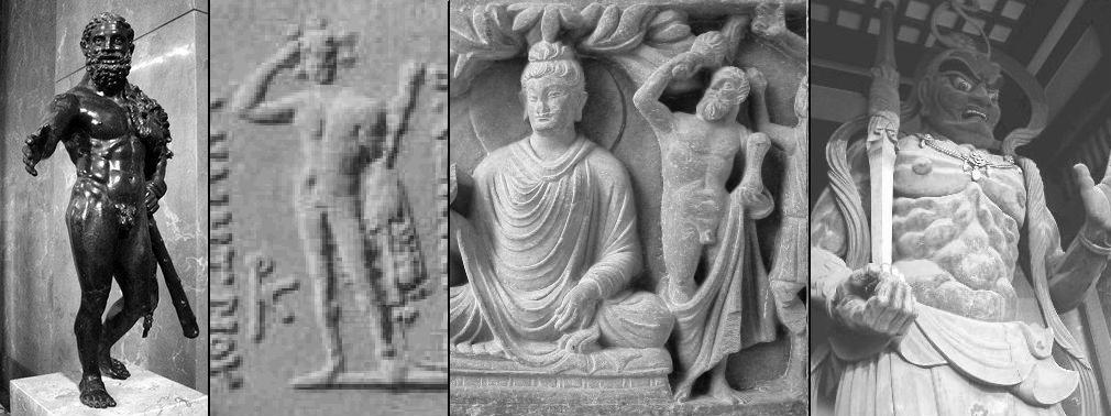 Iconographical evolution of the Greek Herakles into the Japanese Shukongoshin. All Wikipedia Public Domain photograph (except Herakles, which is GNU Free Documentation license).